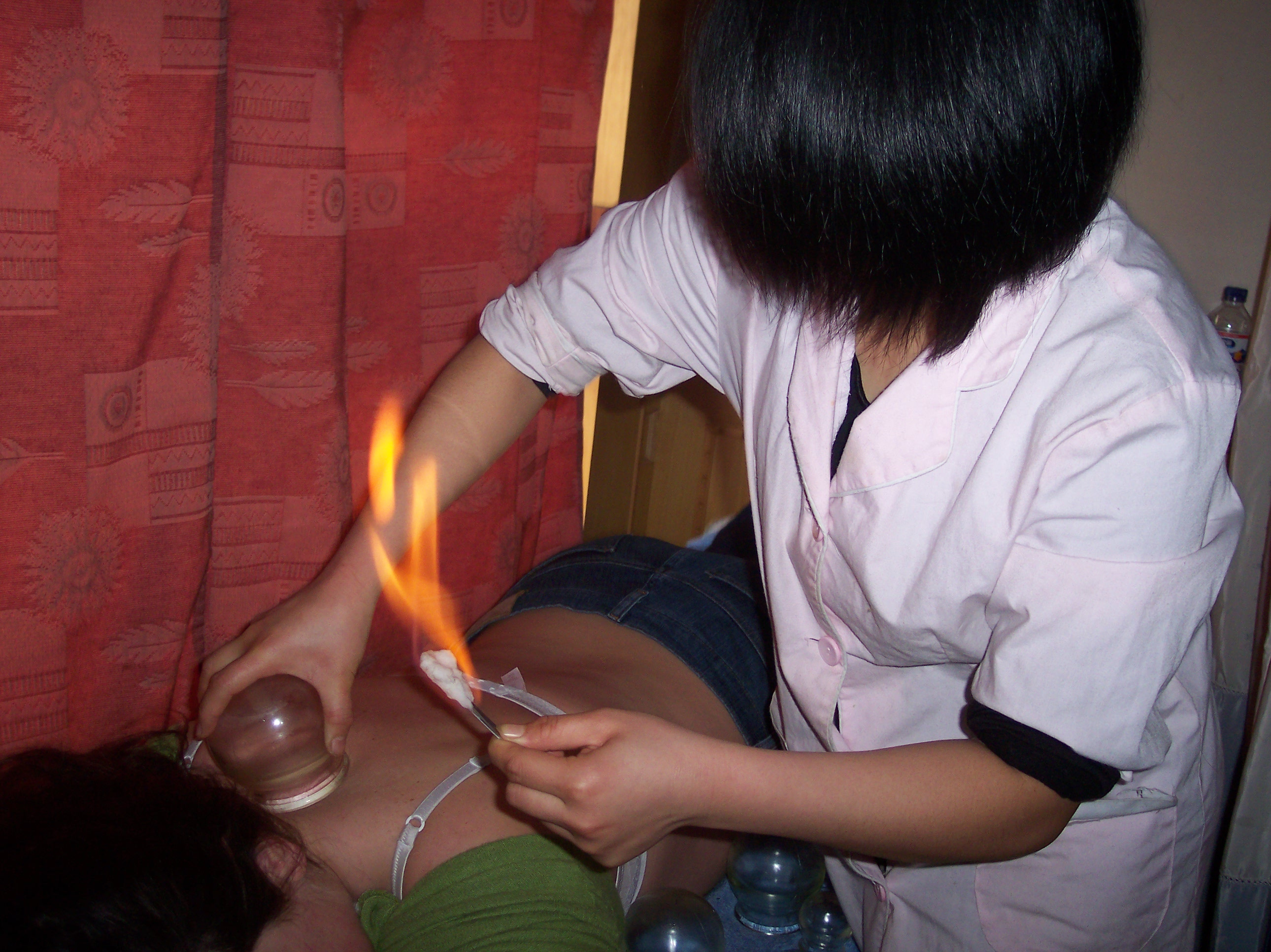 A patient receiving fire cupping therapy.